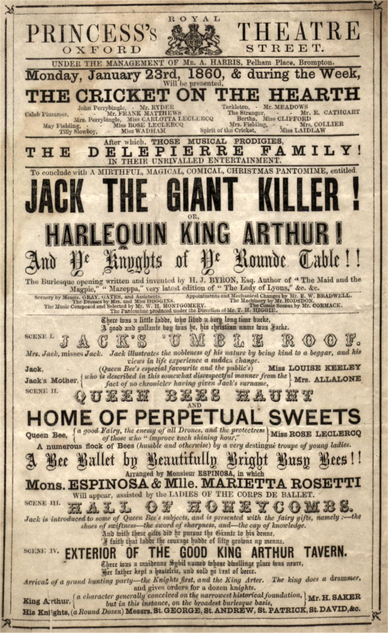 Bill for pantomime Jack the Giant Killer by H.J. Byron, scanned from original 1860 bill.